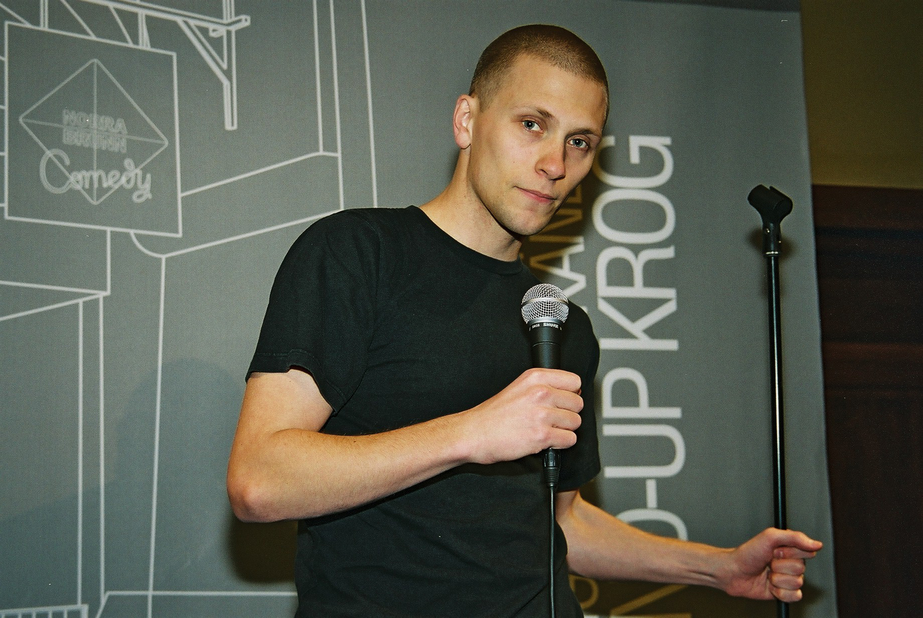 The swedish comedian Magnus Betnér